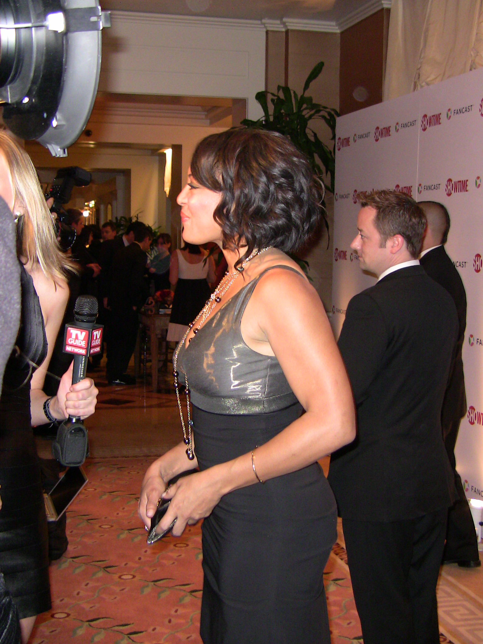 Lauren Vélez at the Showtime Golden Globes Party, The Peninsula Hotel, Beverly Hills, Calif. - Jan. 11, 2009.